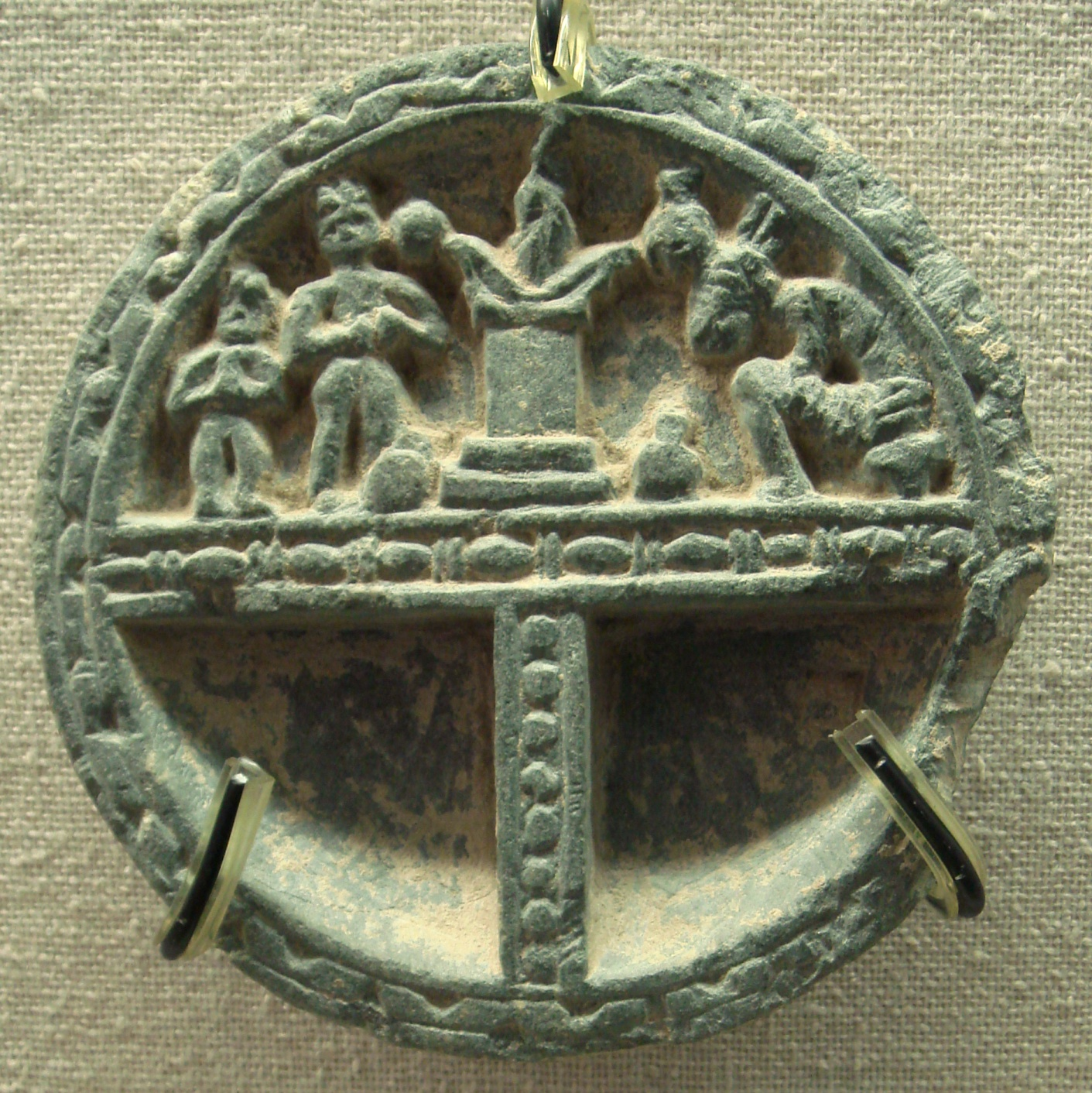 Fire alter worship. Possible Zoroastrian cult. Indo-Parthian stone palette. Ancient Orient Museum. Personal photograph 2006.